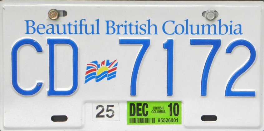 British Columbia license plate